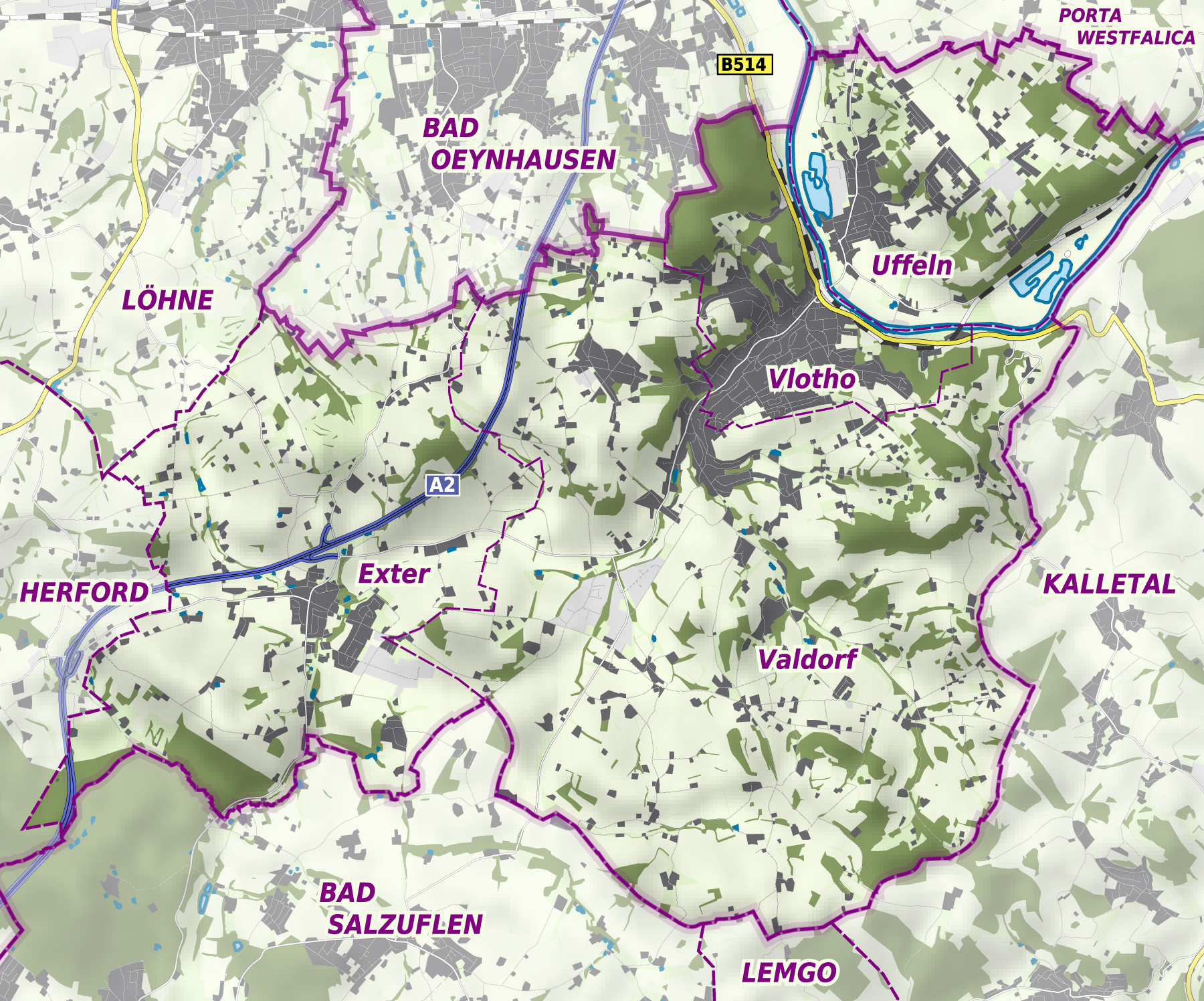 Map of Vlotho, District of Herford, North Rhine-Westphalia, Germany.